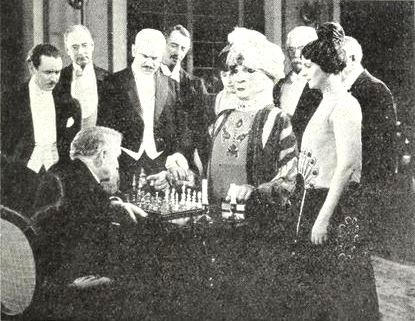 Still from the American film White Tiger (1923) showing the automatic chess playing machine, Priscilla Dean at right, on page 9 of the December 9, 1922 Universal Weekly.